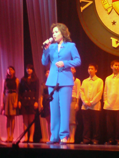 Lea Salonga performing at the 2009 Volvo Voice of Leadership Gala Night and Elocution Finals held at the Carlos P. Romulo Auditorium, RCBC Plaza, Makati City, Metro Manila, Philippines.